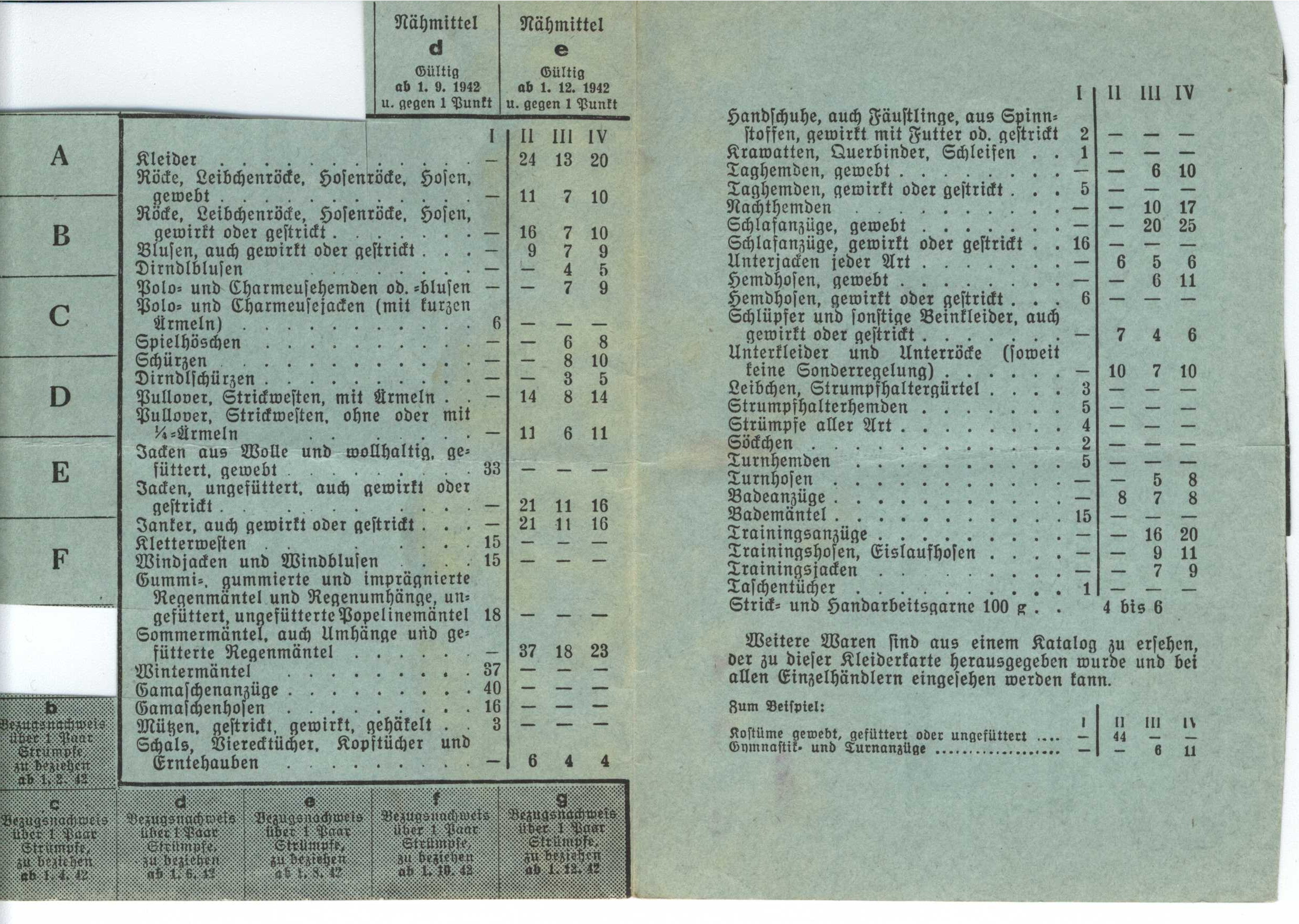 Back side of voucher for clothes, Germany 1942